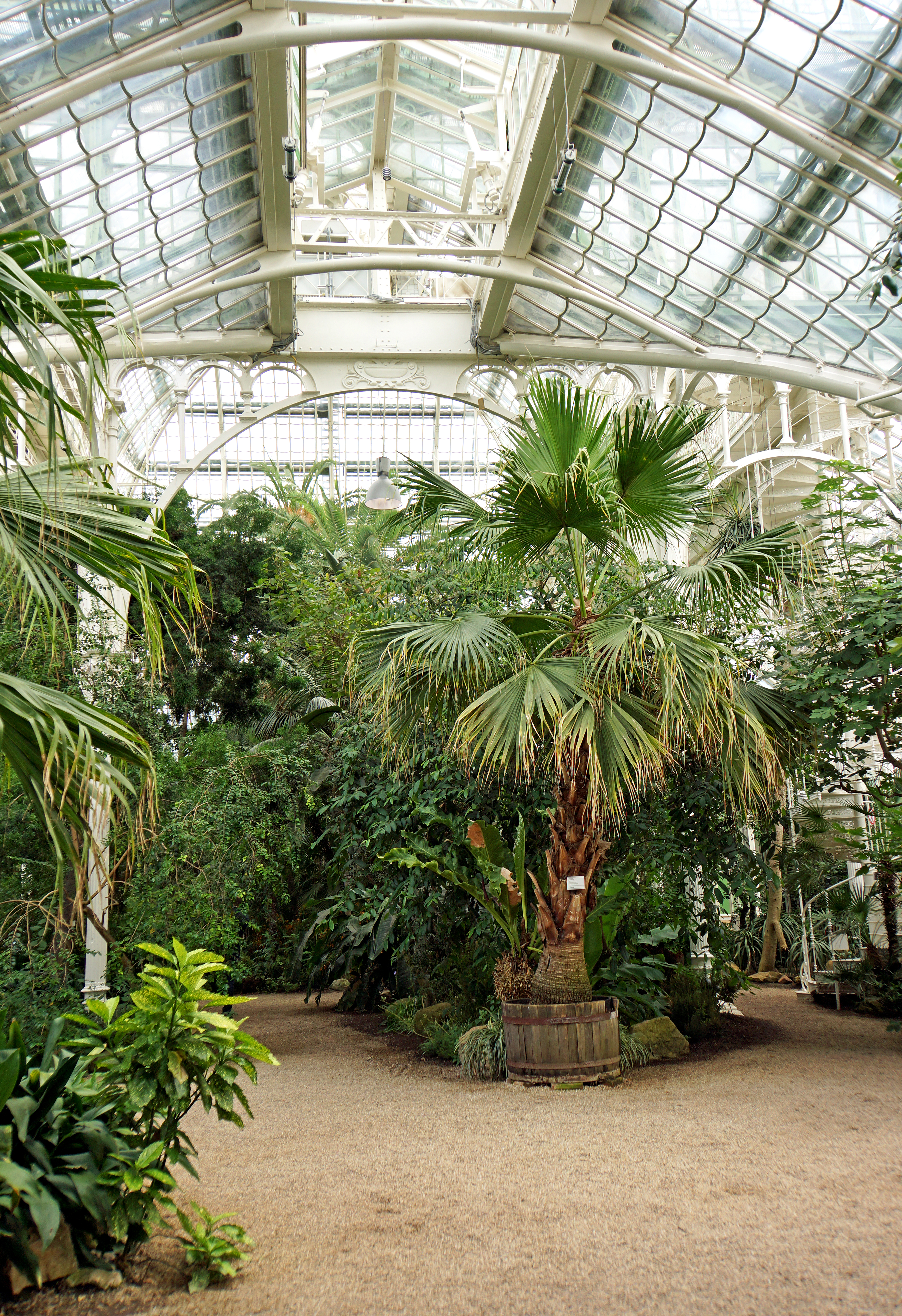 The Palm House was erected in 1881/2. It is 130 meters (426 ft)long, the Palm House consists of a 28 metre (92 ft) high central pavilion and two lateral pavilions which are three metres lower. Linked by tunnel-like passages, the pavilions contain different climatic zones. The necessary temperatures are achieved by means of a steam heating system which means that rare specimens from all over the world can be grown here.